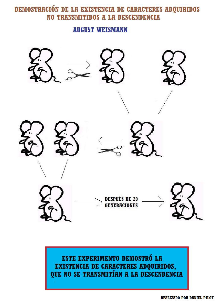 Weismann experiment of cutting the queue to rats